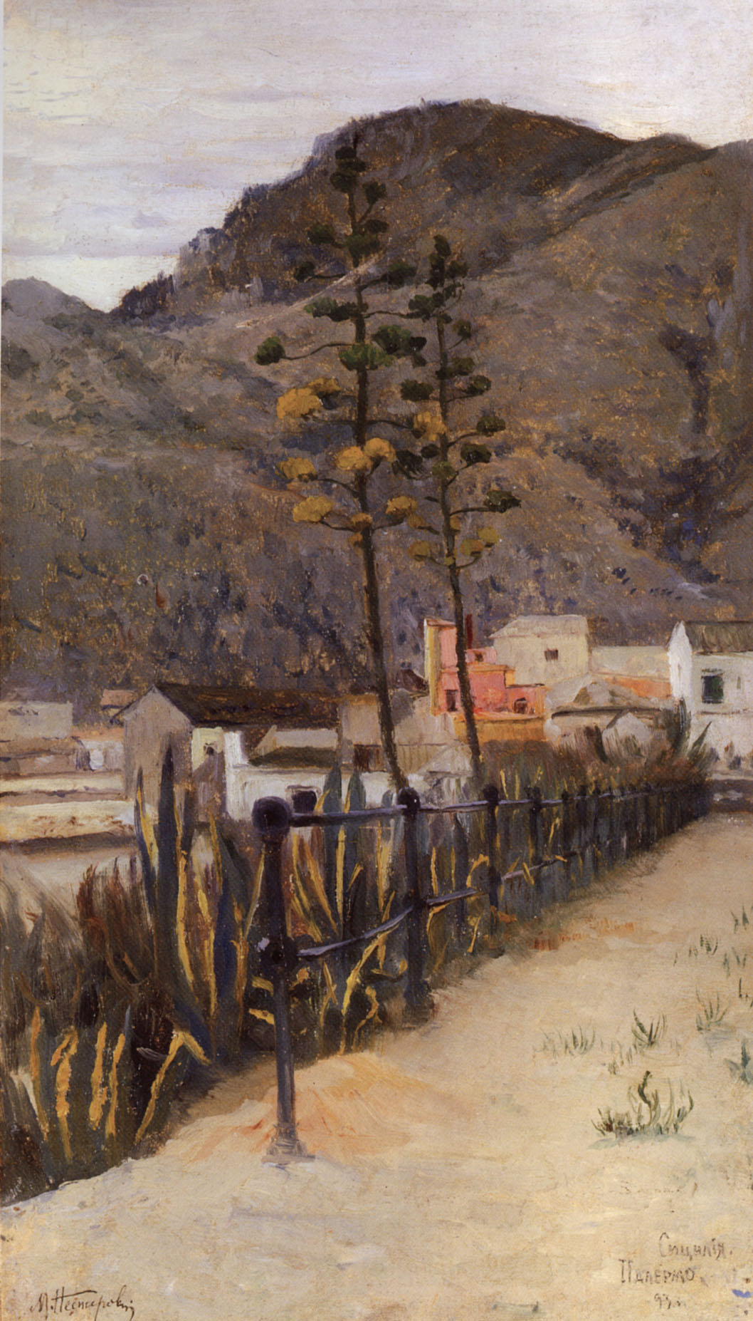 Palermo by Mikhail Nesterov. Held at Novosibirsk State Fine Arts Museum (Russian Federation - Novosibirsk)